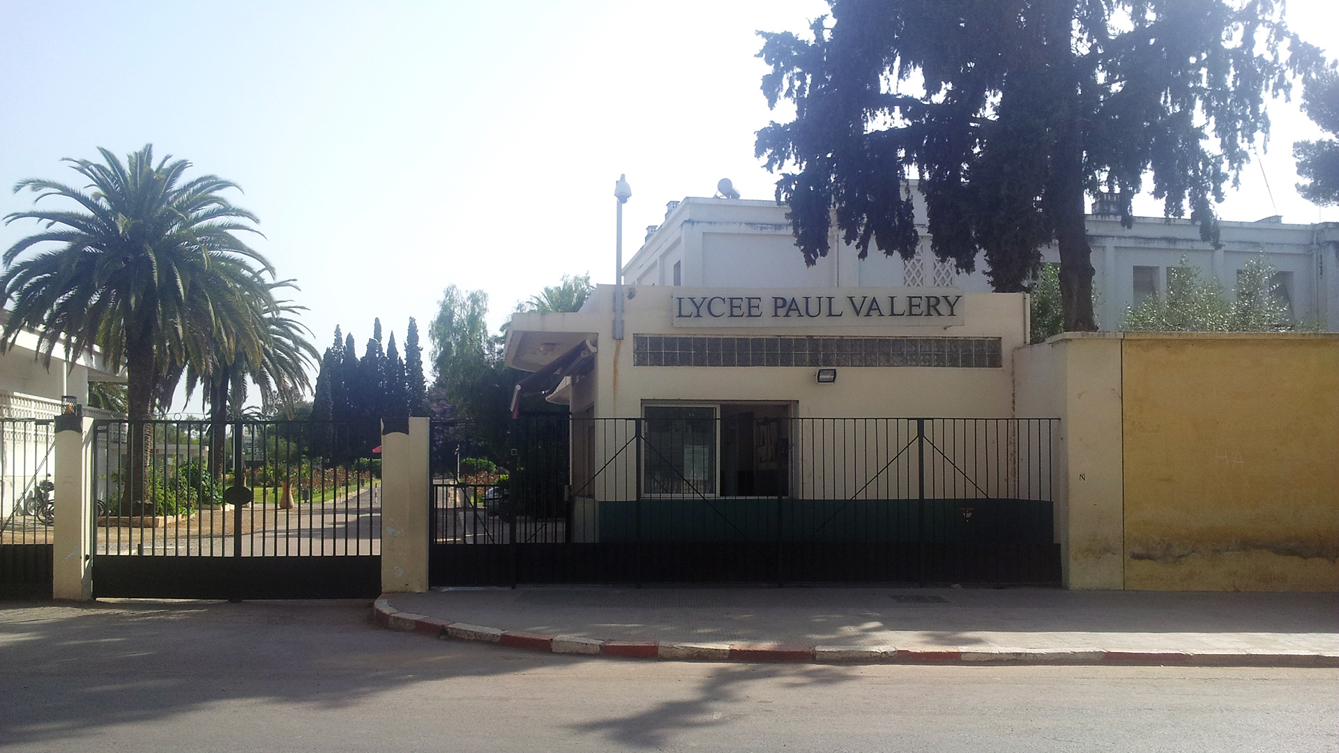 The main entrance of the French international school Lycée Paul Valéry in Meknès.